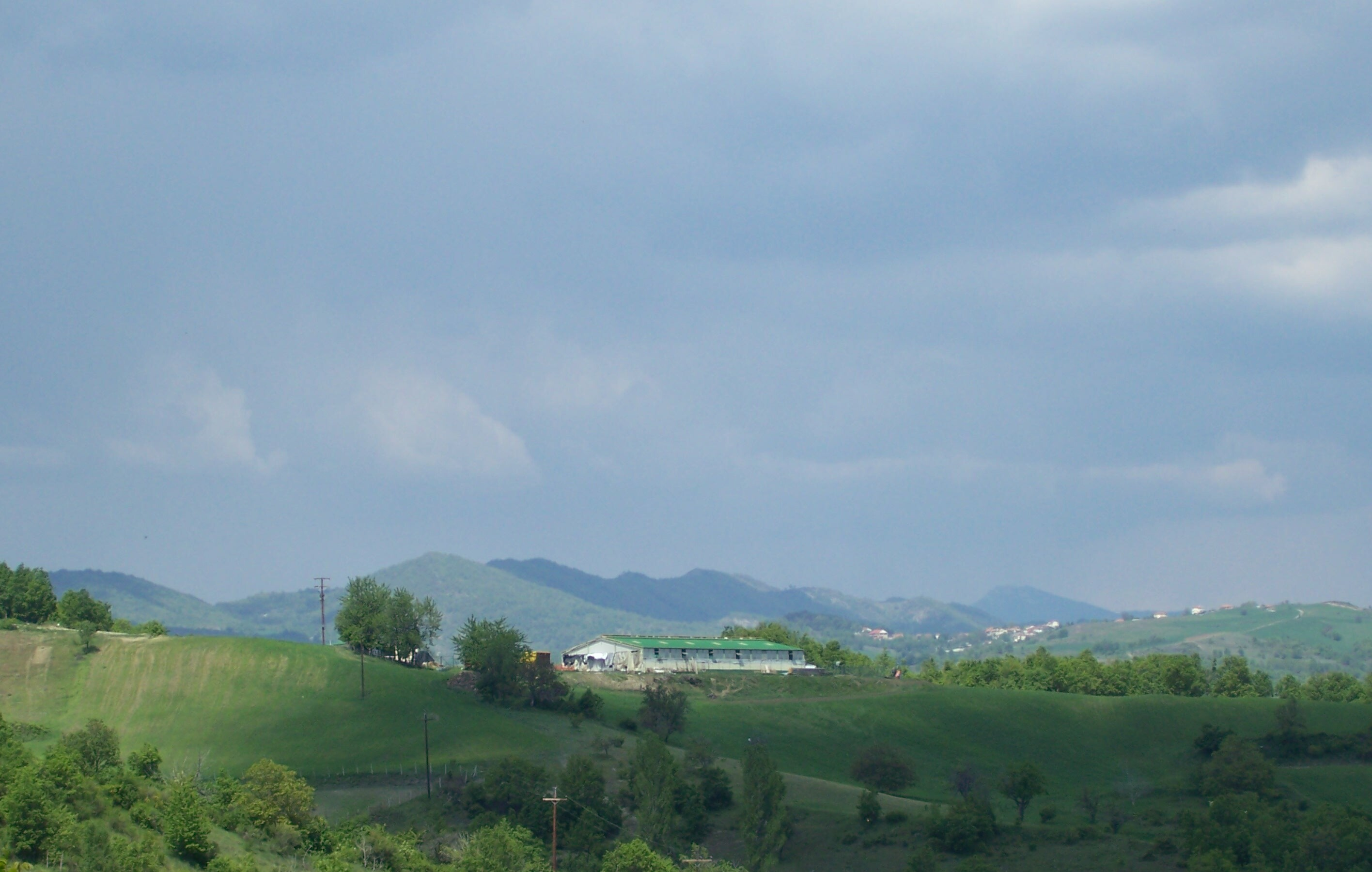 Cheese production unit in Mavronoros, Grevena, Greece